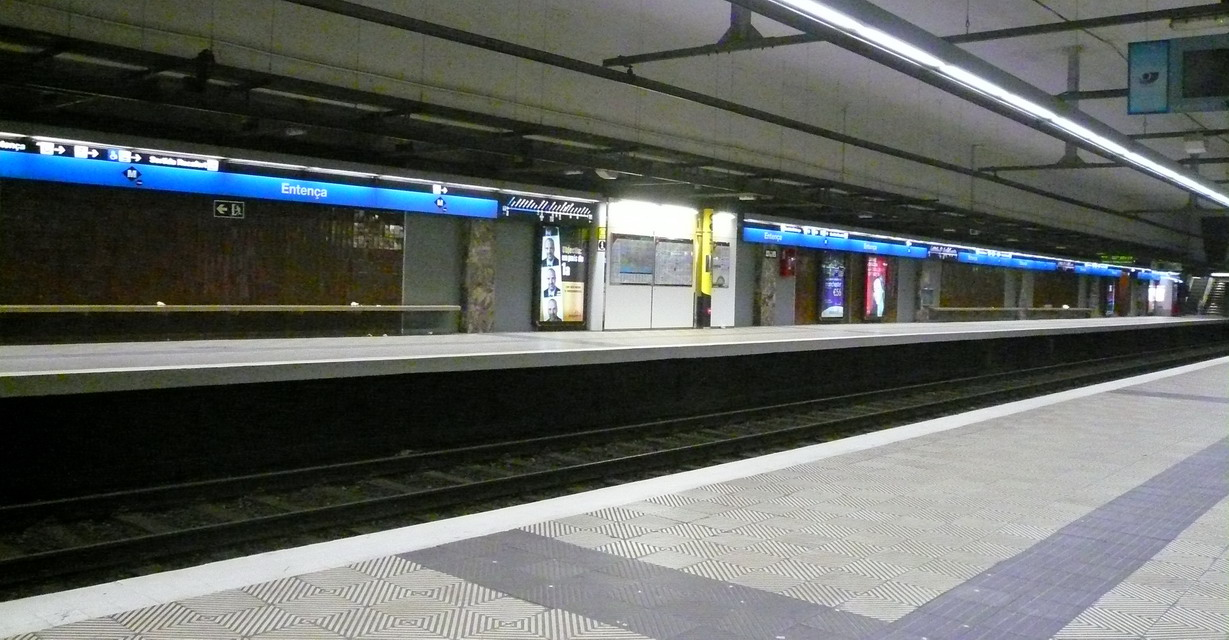 Barcelona metro, Entença station